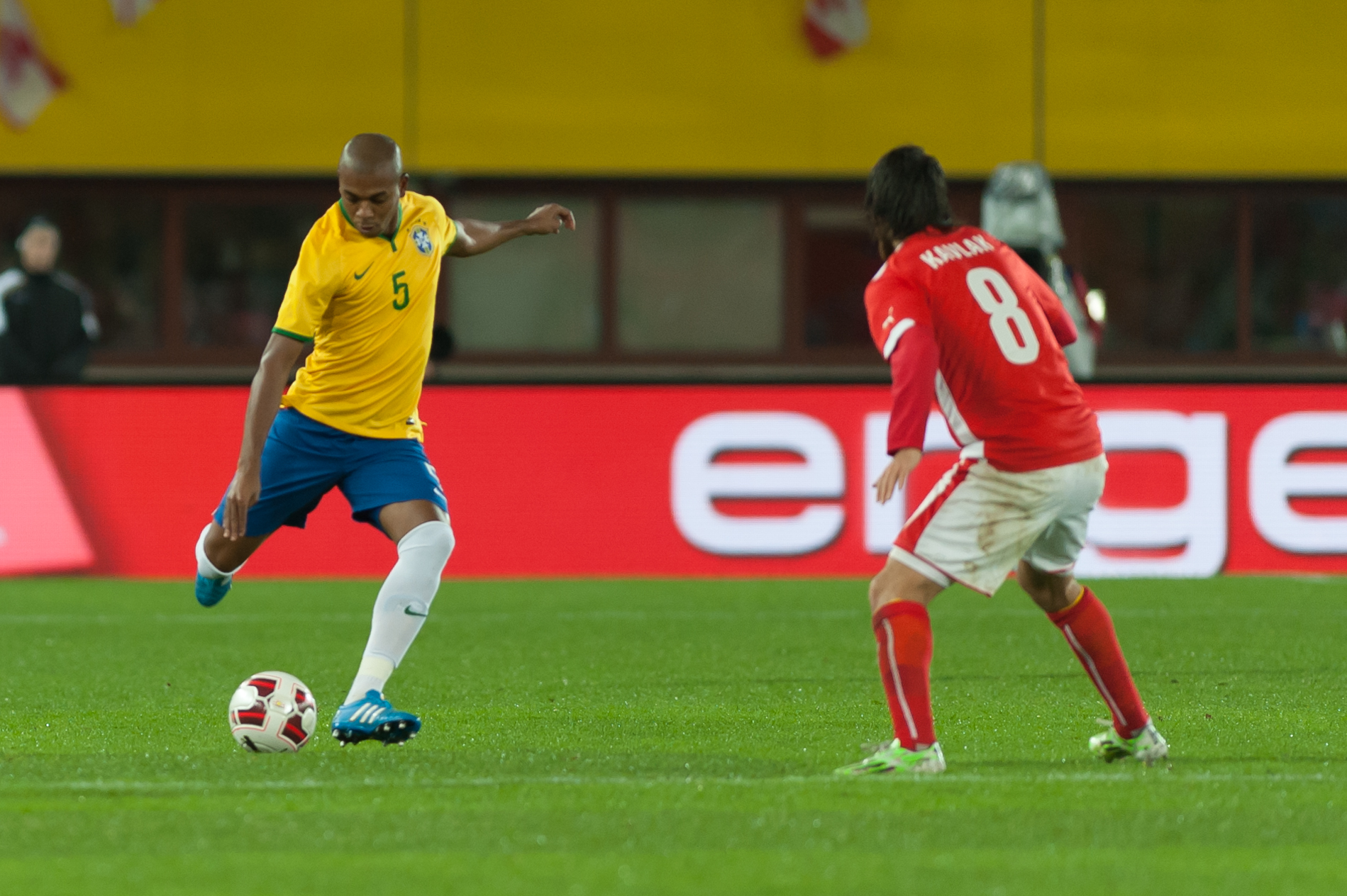 International Friendly Austria - Brazil November 18, 2014: Fernandinho